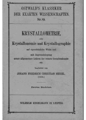 1897 book in which J. F. C. Hessel's derivation of the 32 crystal classes was re-published.